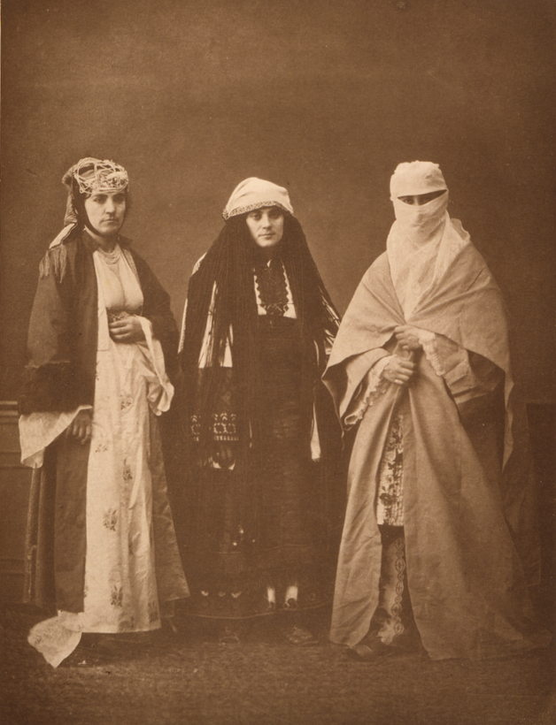 Pascal Sébah was a prolific and well-known Ottoman photographer who worked for both Ottoman and Western clients. Sébah’s studio produced a number of collections of ethnographic and costume photos, some in collaborations with the painter and archaeologist Osman Hamdi Bey. This photomechanical print is drawn from one such collaboration, a book entitled Les costumes populaires de la Turquie en 1873 (Folk [or Traditional] costumes of Turkey in 1873). This album depicting ethnic costumes from throughout the Ottoman Empire was commissioned by the Ottoman government for the 1873 International Fair in Vienna and was authored by Hamdi Bey and Victor Marie de Launay, an Ottoman official, amateur historian, and artist of French origin. The photo depicts the traditional costumes of (from right to left) a married Muslim woman of Selanik (Salonika); a married Jewish woman of Selanik (Salonika); and a Bulgarian woman of Perlèpè (Prilep). In Ottoman times, Salonika (present-day Thessaloniki, Greece) was a cosmopolitan city. According to the 1913 census, its population of approximately 158,000 people included around 40,000 Greek Christians, 46,000 Muslims, and 61,000 Jews. Clothing and dress; Group portraits; Portrait photographs; Women